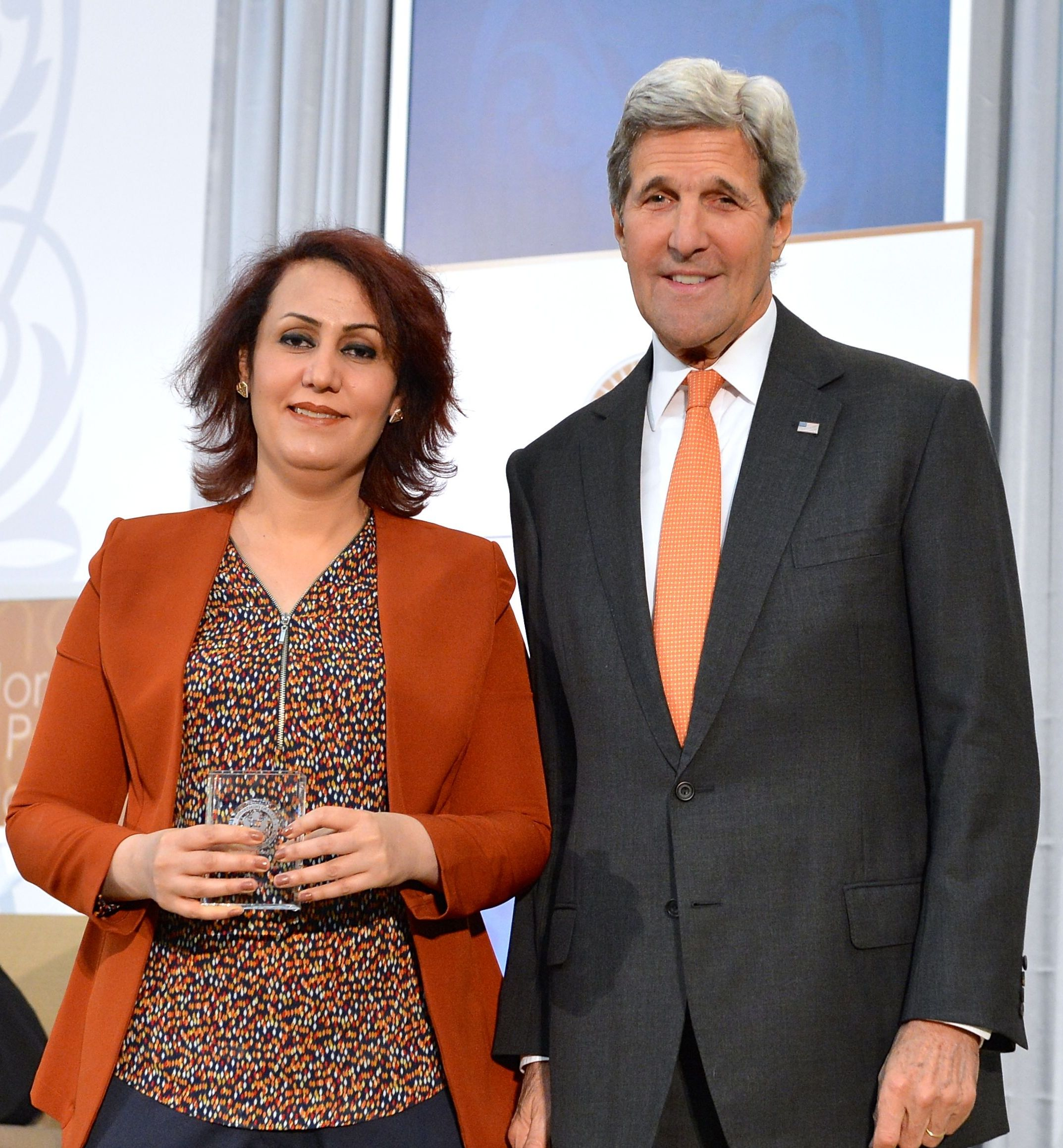 Nagham Nawzat at the International Women of Courage Awards 2016 with John Kerry